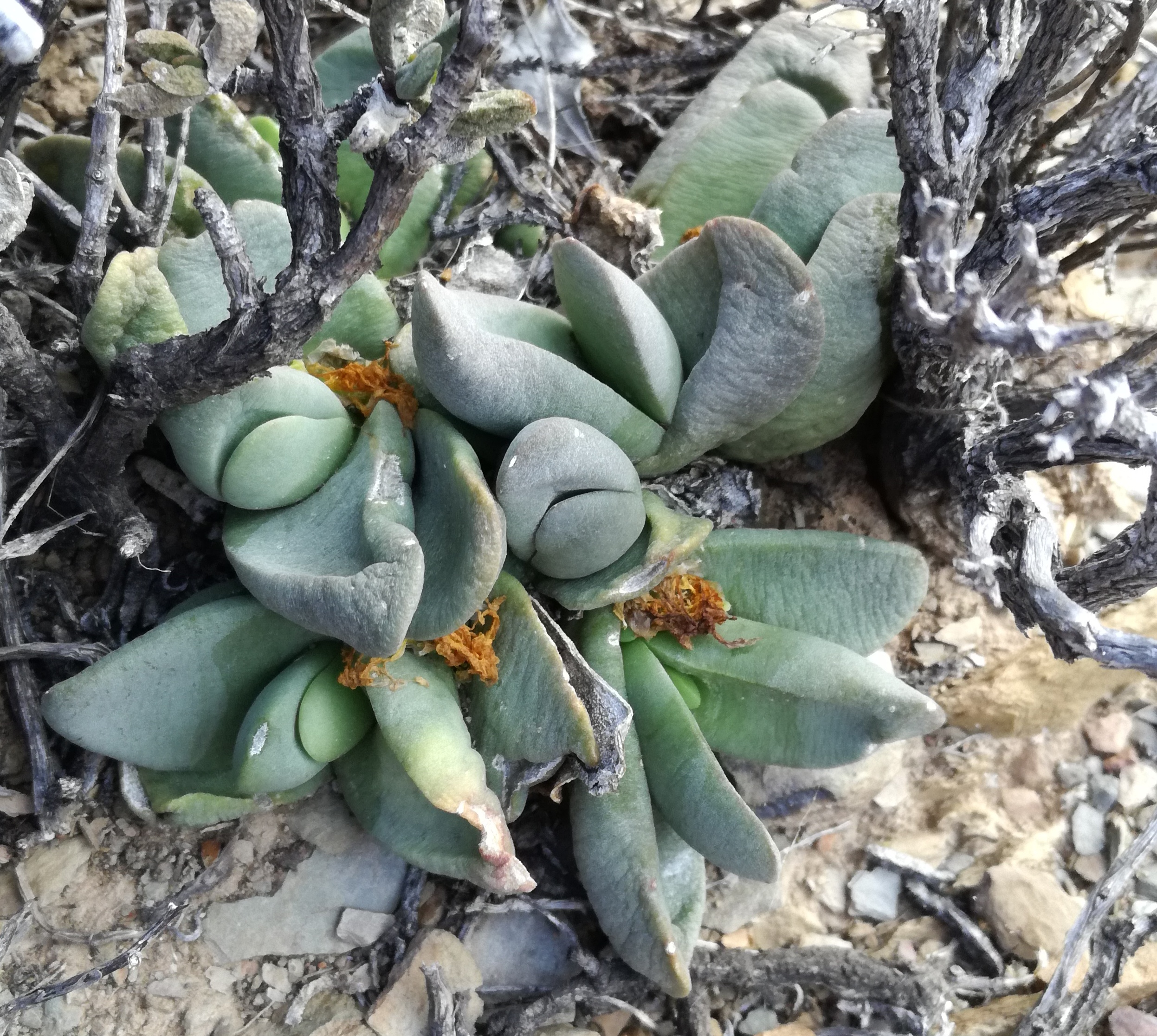 Glottiphyllum suave R62